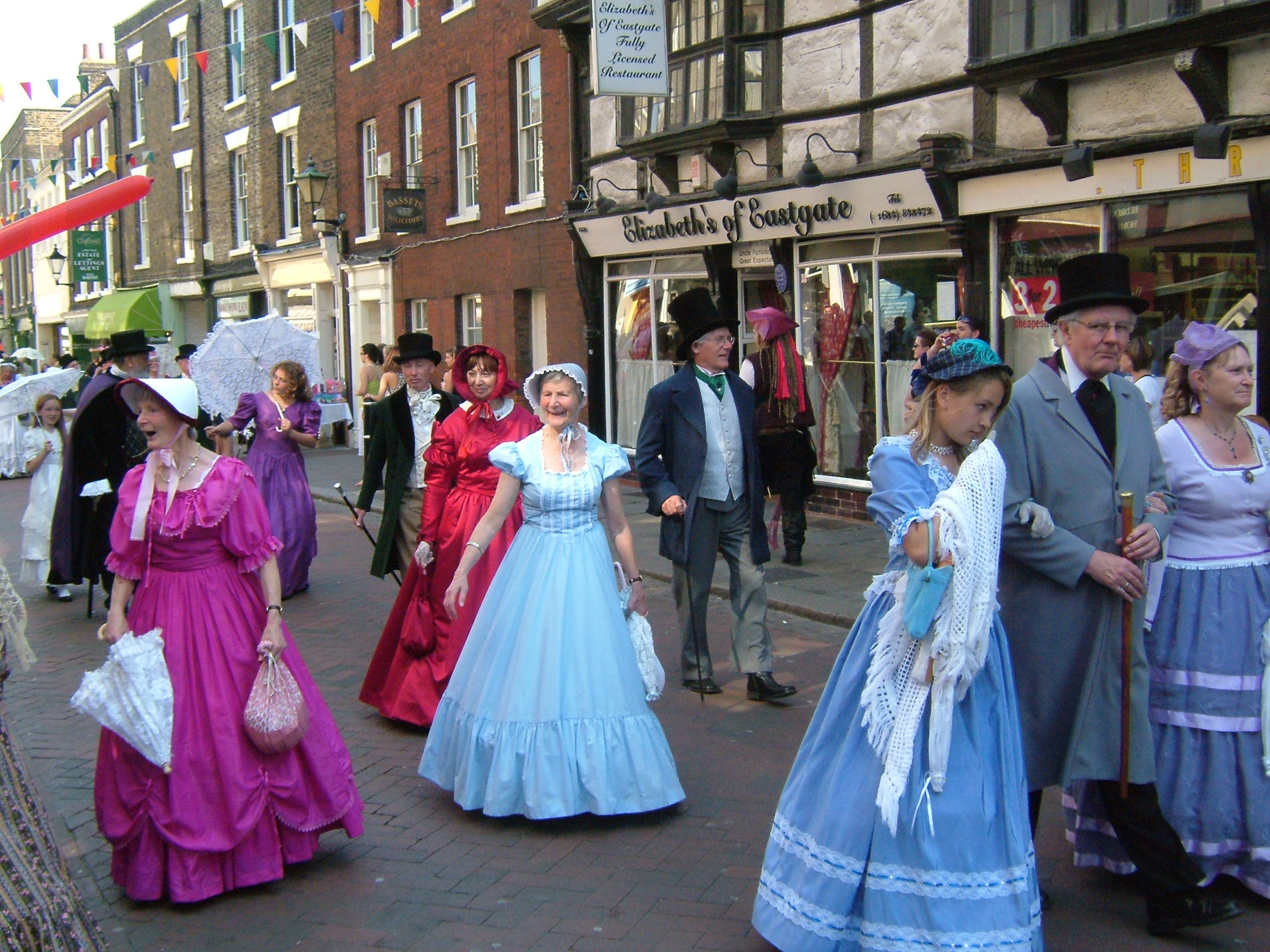 Here we see characters taking part in the afternoon parade, at the Summer Dickens Festival June 2007, in Rochester, Kent. The festival has happened for 29 years, and the participants faithfully create the costume of the time. - Google Maps - Google Earth